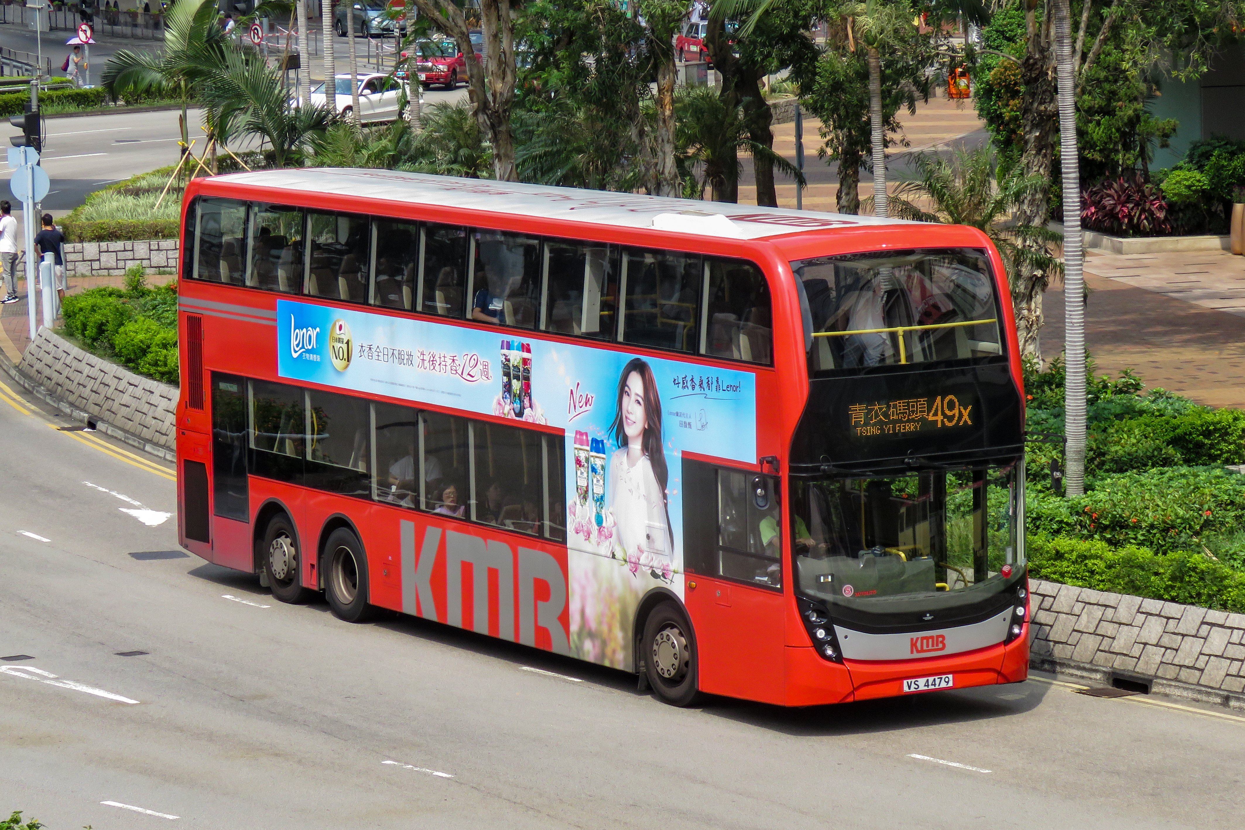 Seen with Lenor banners.